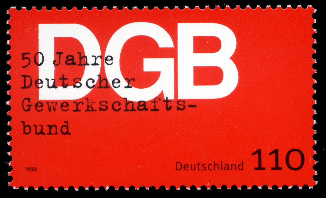 Stamp from Deutsche Post AG from 1999, 50th anniversary of Confederation of German Trade Unions